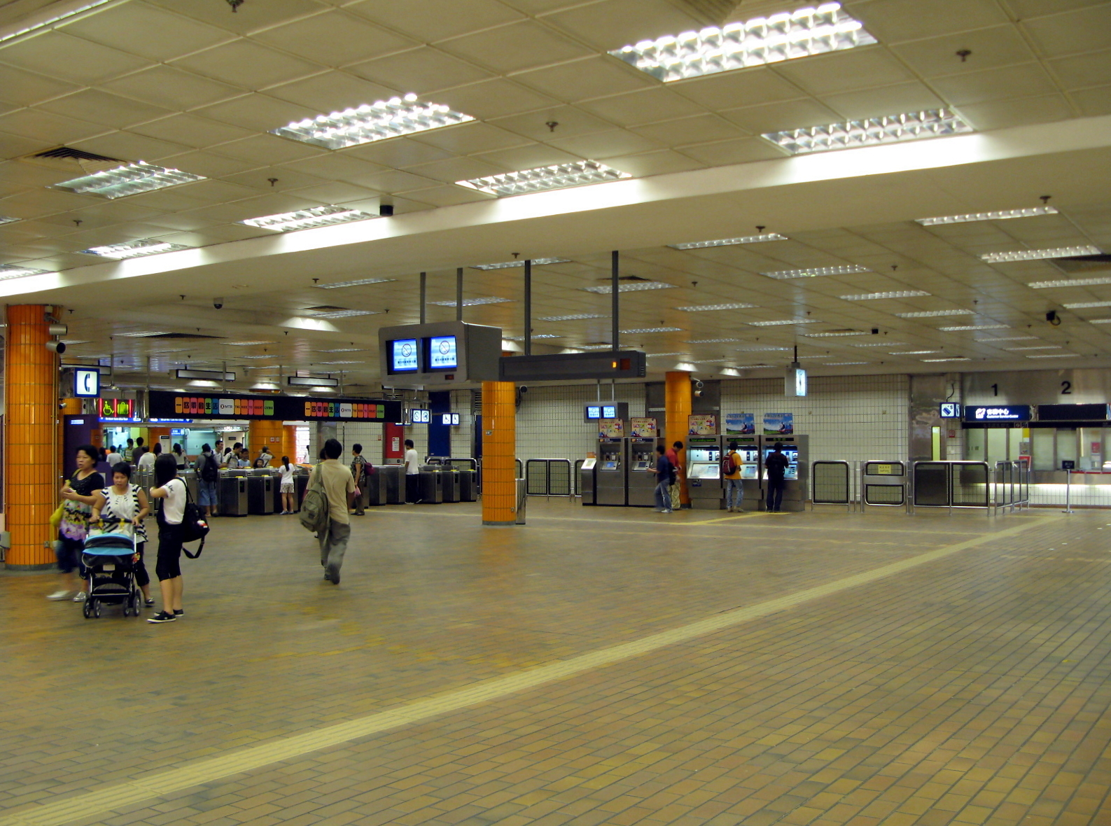 HK MTR Tai Wo Station Platform 港鐵 太和站